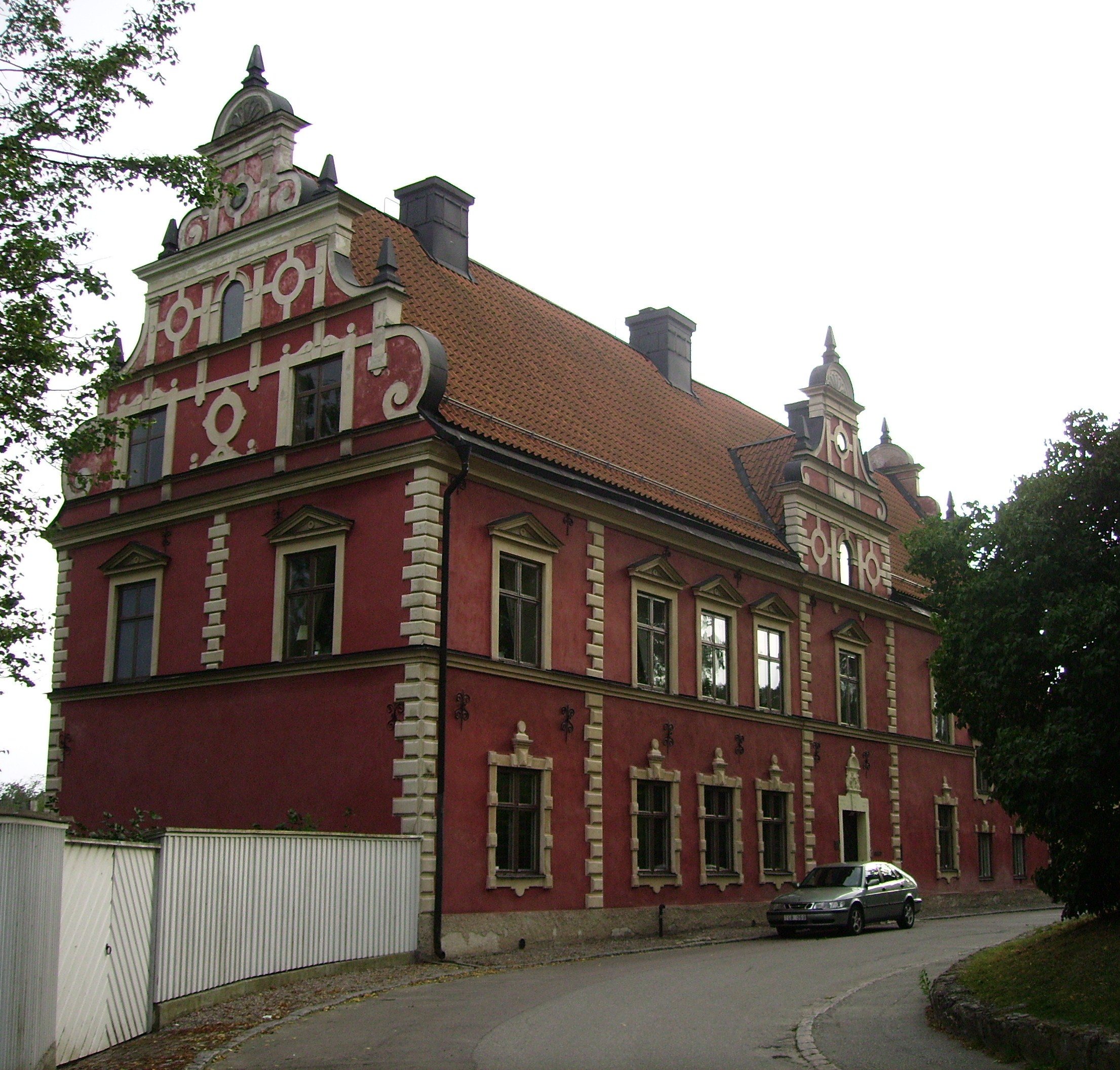 Picture of Biskopsgården in Strängnäs, Södermanland